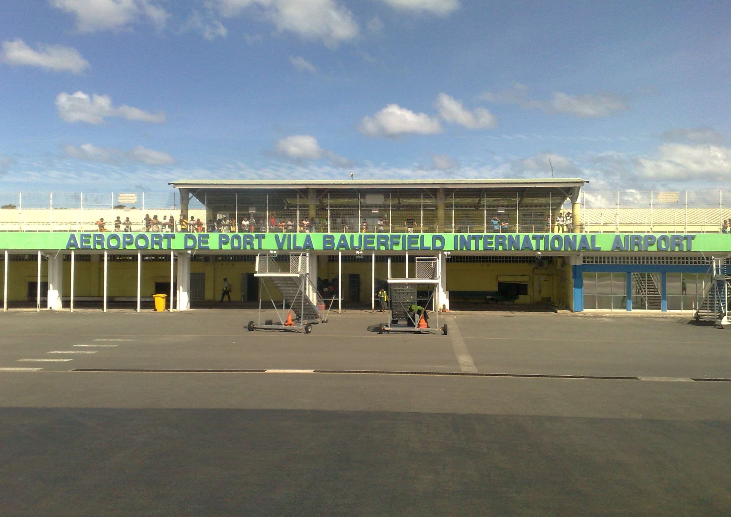 Terminal Building at Bauerfield International Airport (VLI/NVVV), Vanuatu.